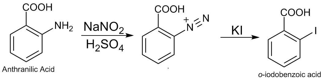 Reaction scheme of diazo replacement reaction.